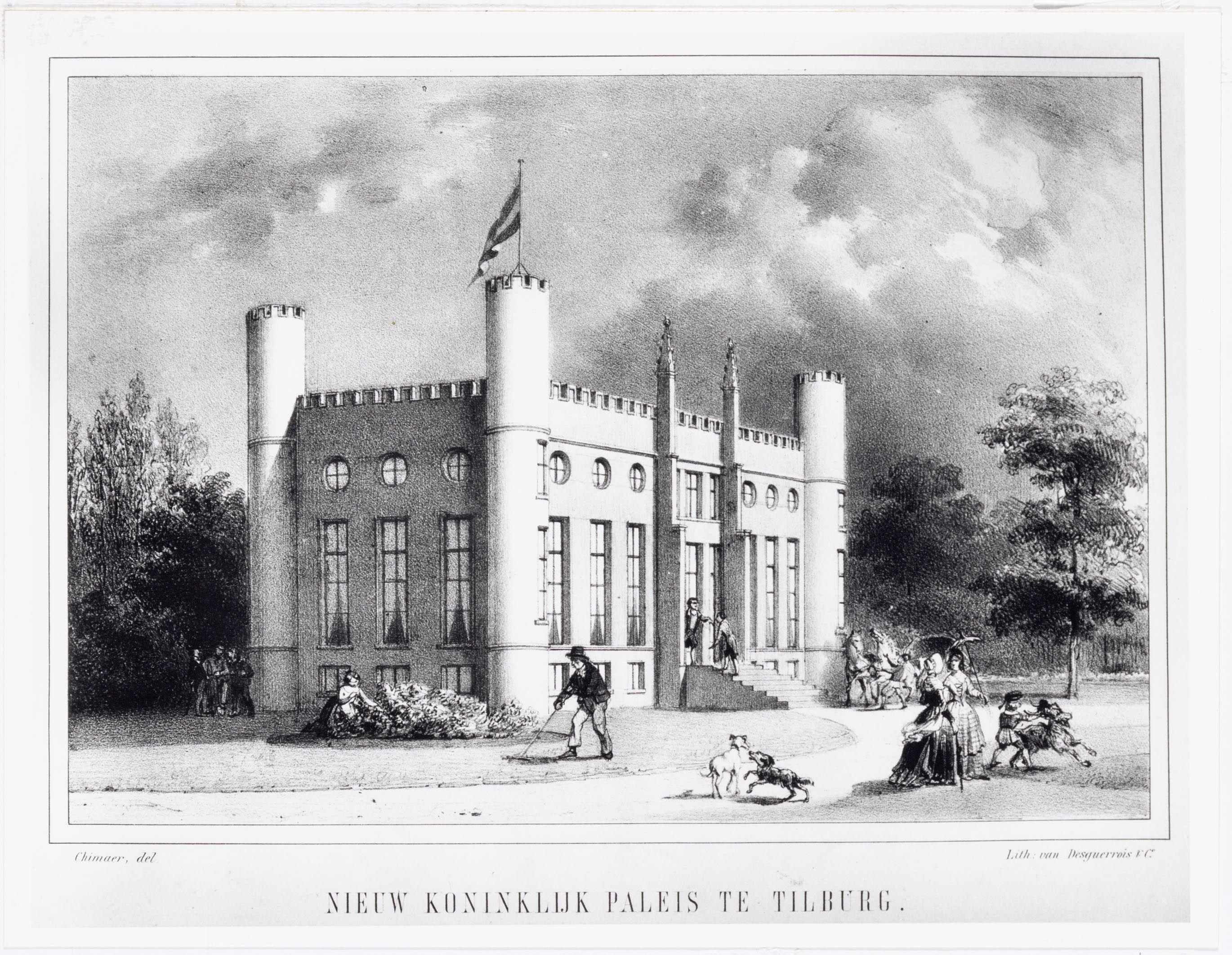 A drawing by Willem Cornelis Chimaer van Oudendorp (1822-1873) of the new royal palace in Tilburg, the Netherlands. Which is today's town house of the municipality Tilburg.